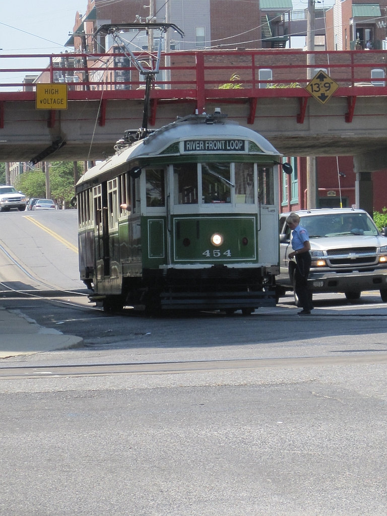 South Main Street Historic District in Memphis, Tennessee. Memphis Trolley